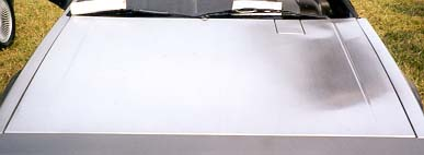 Early 1981 De Lorean hood style. easing image under GFDL licensing